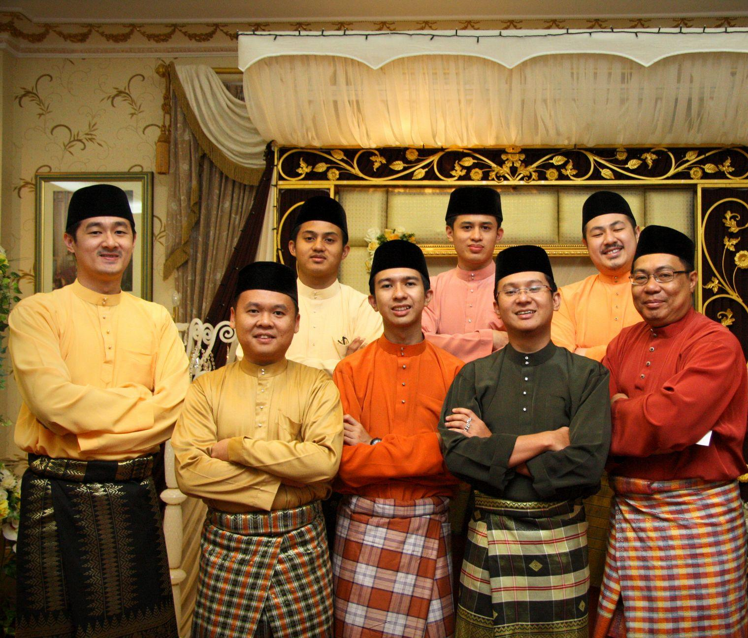 A typical Baju Melayu assemble in Brunei, worn together with a songket.